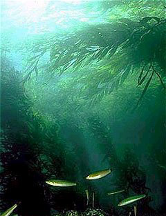 Senorita fish, Oxyjulis californica, in a giant kelp forest in Monterey Bay National Marine Sanctuary